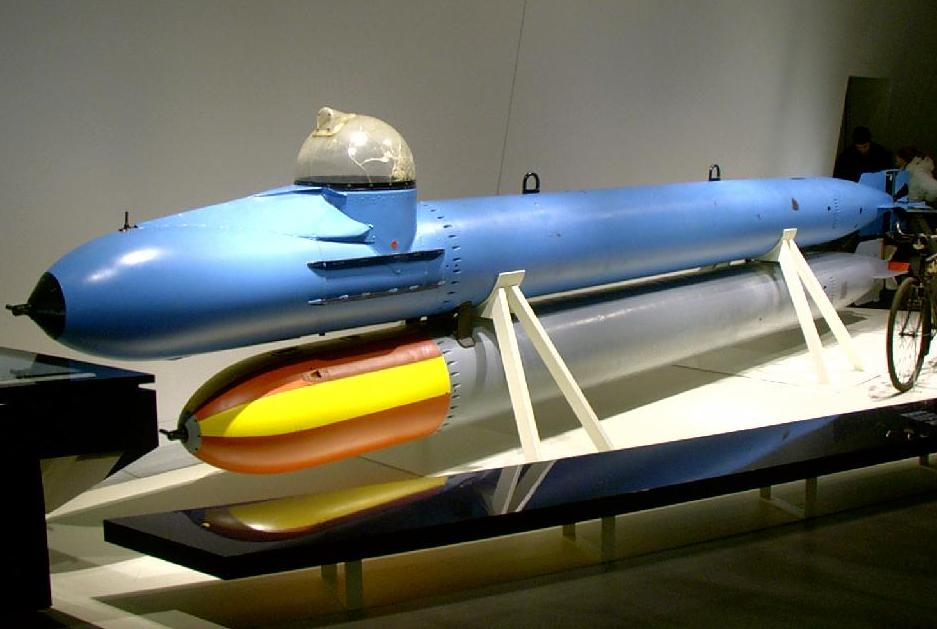 German submarine „Marder“ (Bundeswehr Military History Museum Dresden)